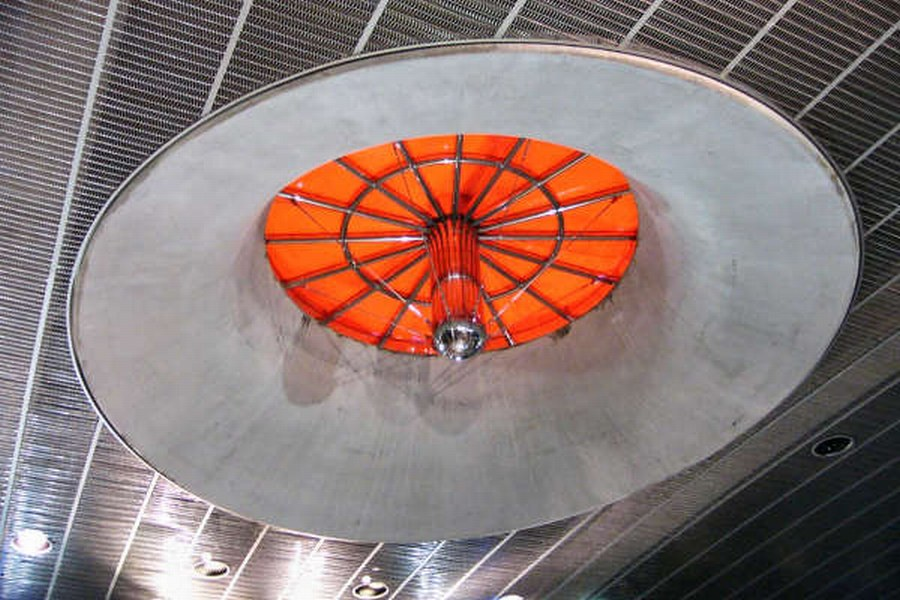 Skylight of Britomart Transport Centre in Auckland City, New Zealand.